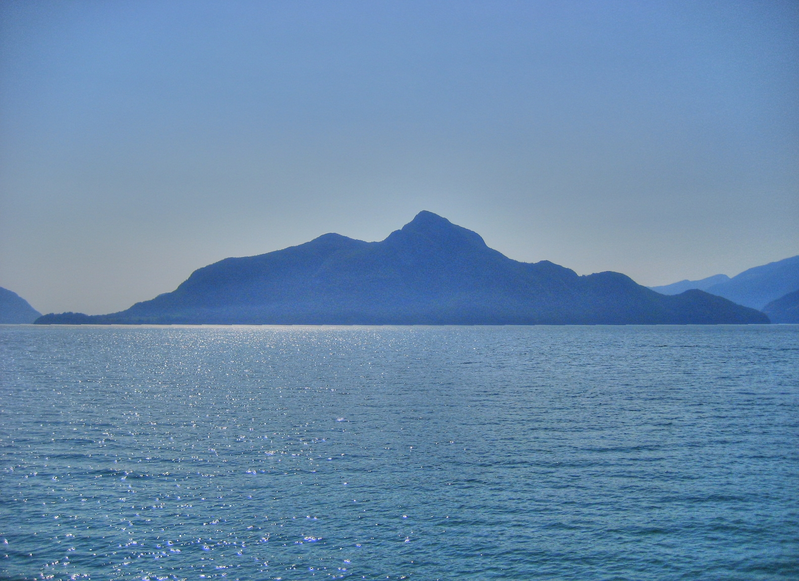 Here's a shot of Gambier Island's distinct shape seen from Porteau Cove along the Sea-to-Sky Highway through Howe Sound. i want to climb that top crown-like peak some day, the view must be amazing.